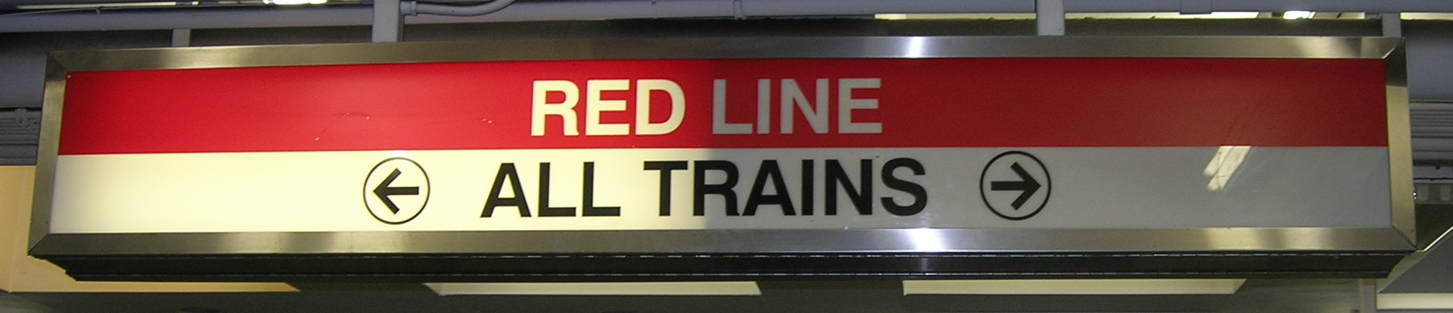 Red Line "All trains" sign at unknown station